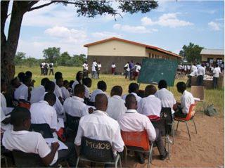 Mookamedi Secondary School students learning outside because of lack of classrooms.